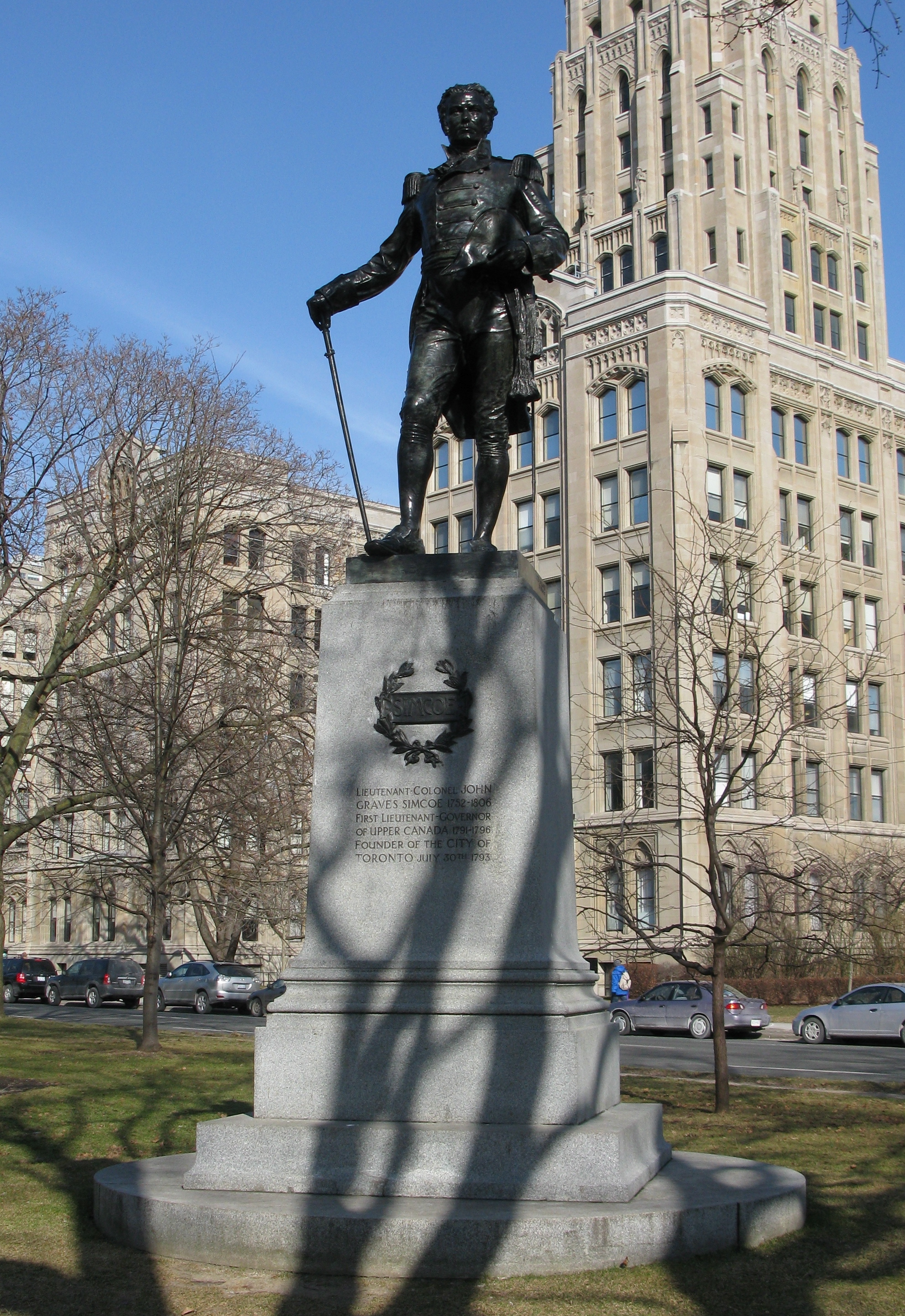 Statue of John Graves Simcoe at Queen's Park, Toronto, with Whitney Block in the background.